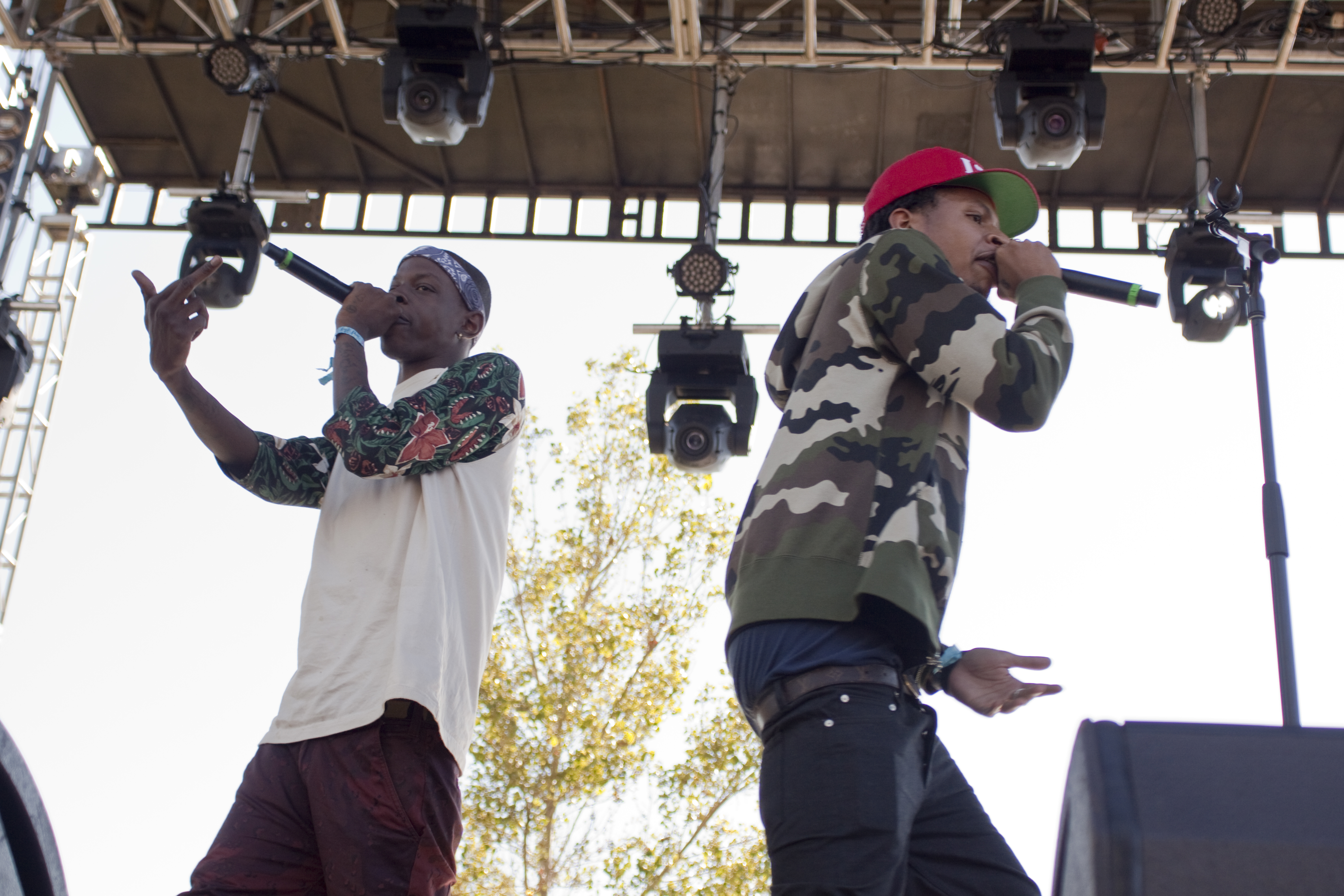 Image of American hip hop duo The Underachievers.